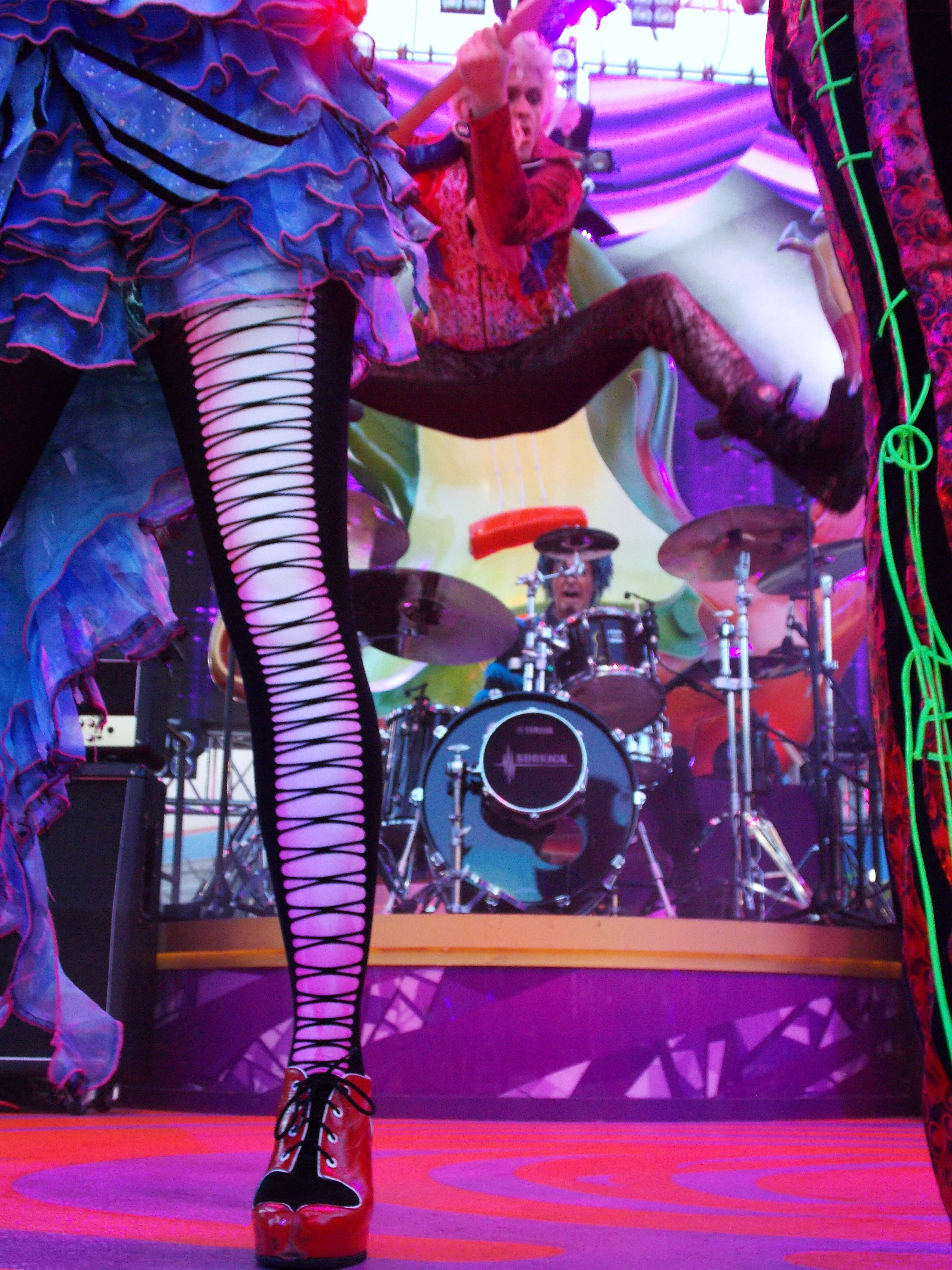 Disney's California Adventure performing group Mad T Party. Alice and the Dormouse.